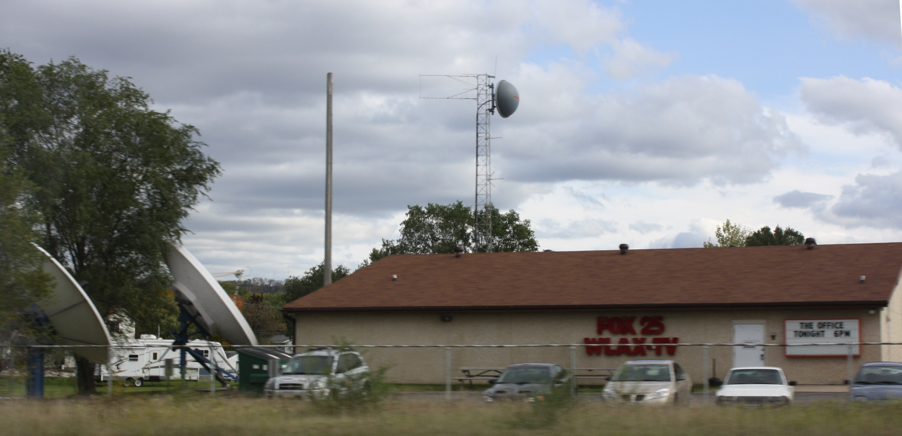 The studios for WLAX television in La Crosse, Wisconsin, along Wisconsin Highway 35.